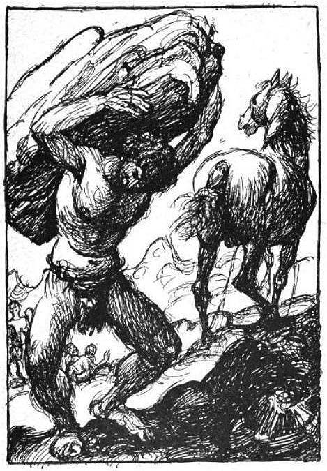 A depiction of the unnamed master builder (1919) by Robert Engels. Title not given in work.